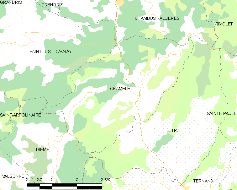 Map of French municipality